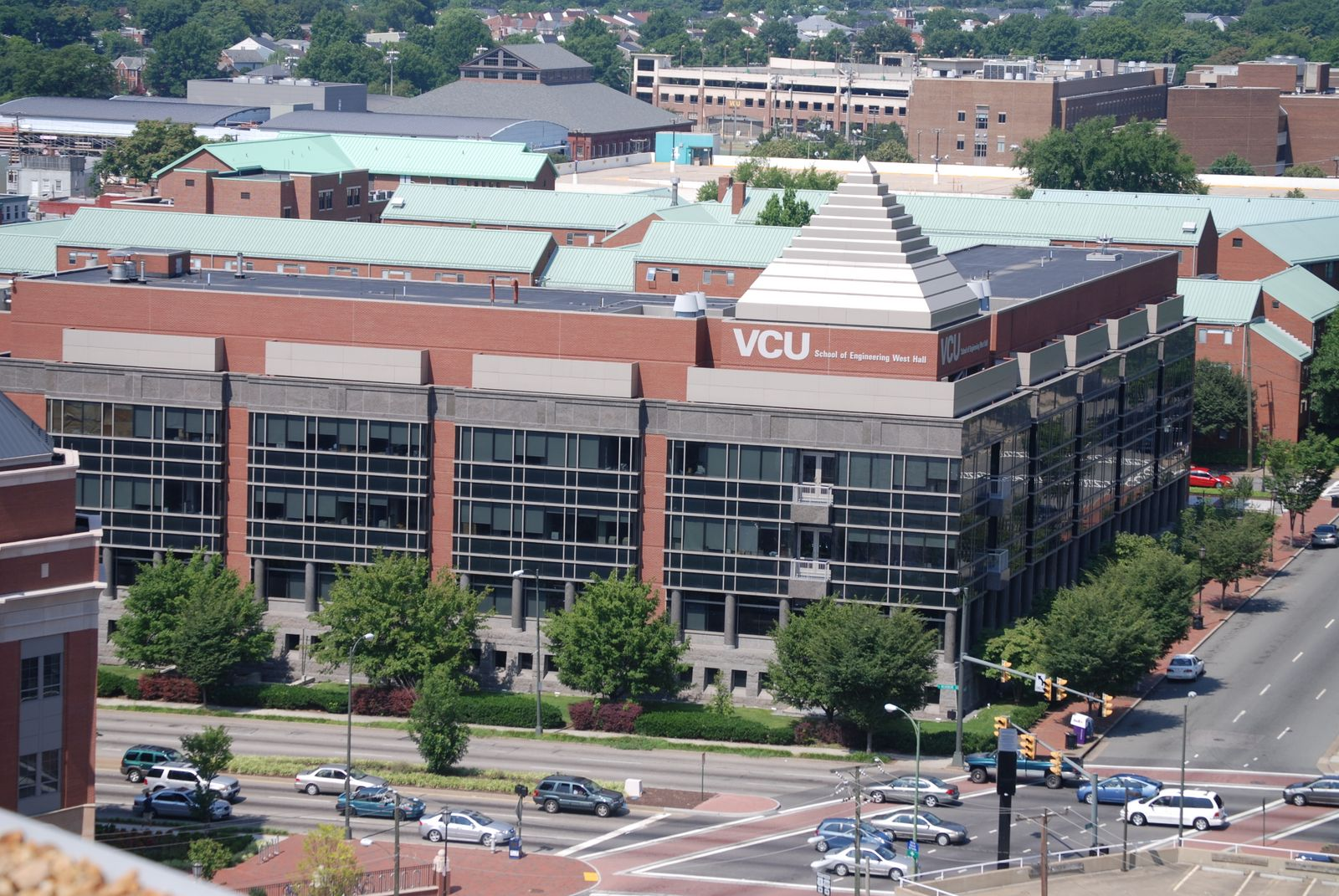 VCU School of Engineering West by Jeff Auth